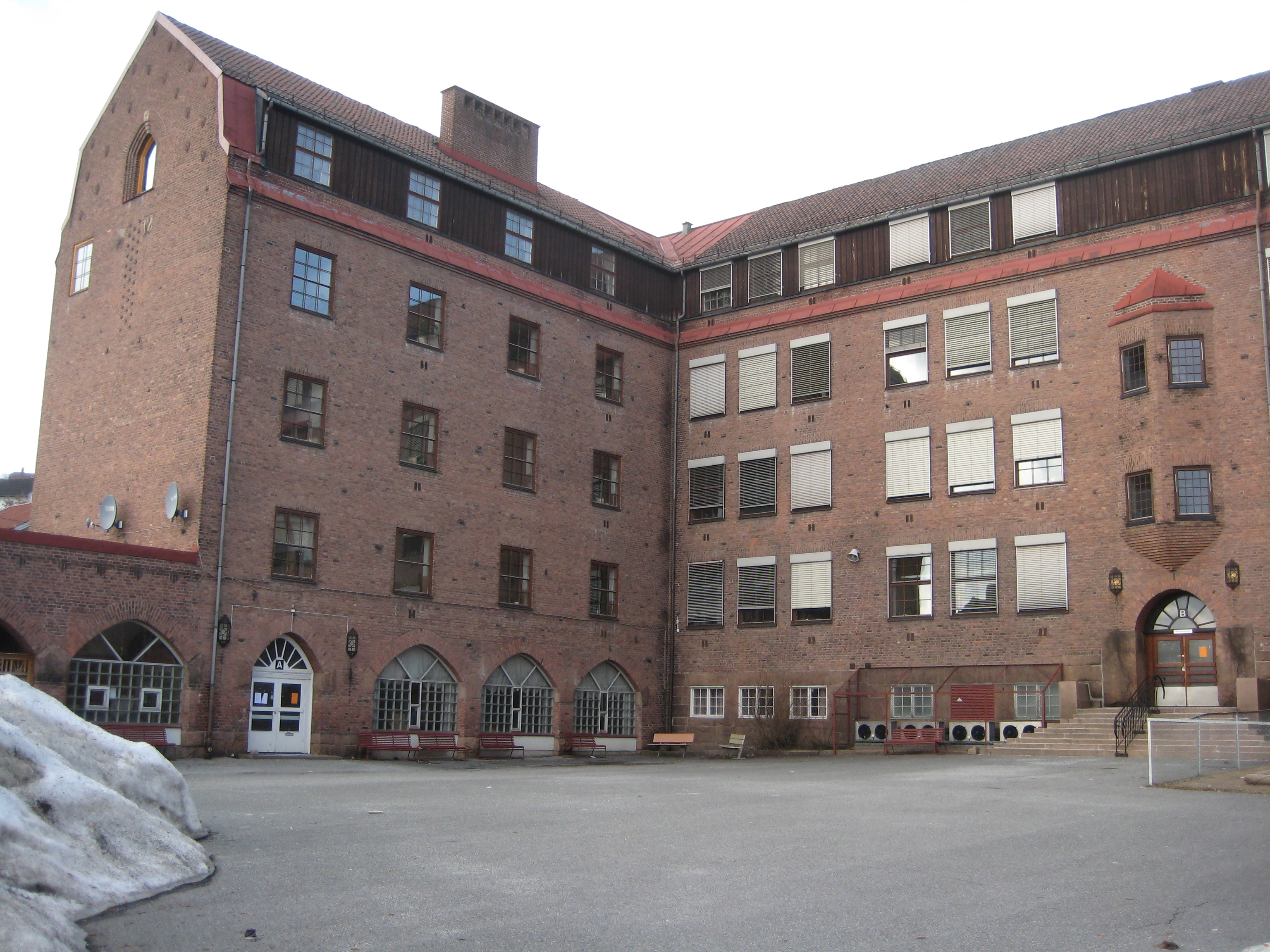 Fjellheim school in Drammen, Norway